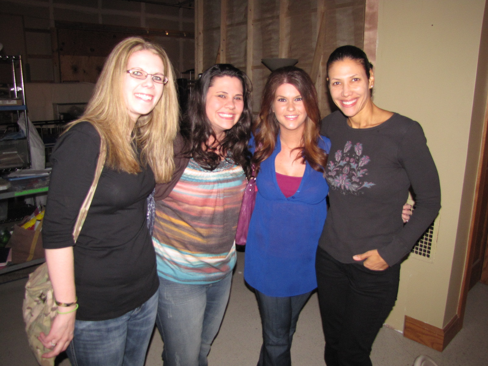 Minnesota Army wives (left to right) Samantha Koktan, Marshall, Minn., Tammy Estes, Northwood, Iowa, and Andrea Curely, Farmington, Minn., pose with Wendy Davis, who plays Joan Burton on Lifetime's "Army Wives," during a visit to the set in Charleston, S.C., Feb. 24.